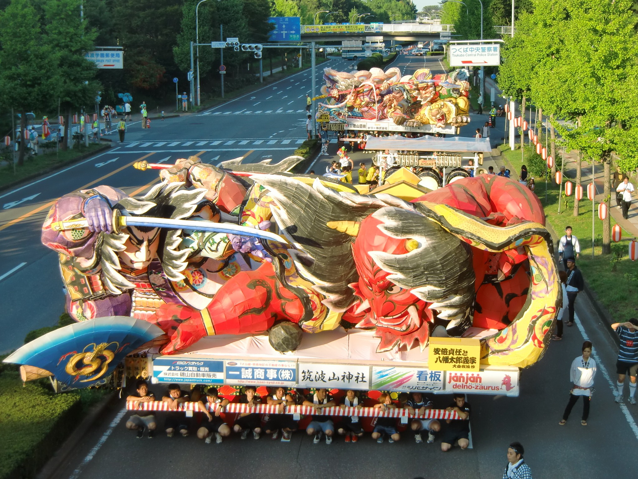 Nebuda parade of Matsuri-Tsukuba in Tsukuba city, Ibaraki prefecture, JAPAN.